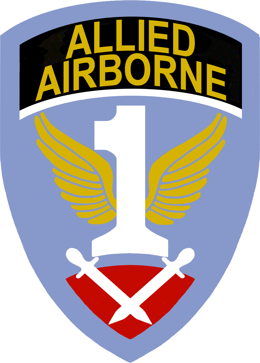 Graphic representation of the insignia of the First Allied Airborne. Made with Photoshop.